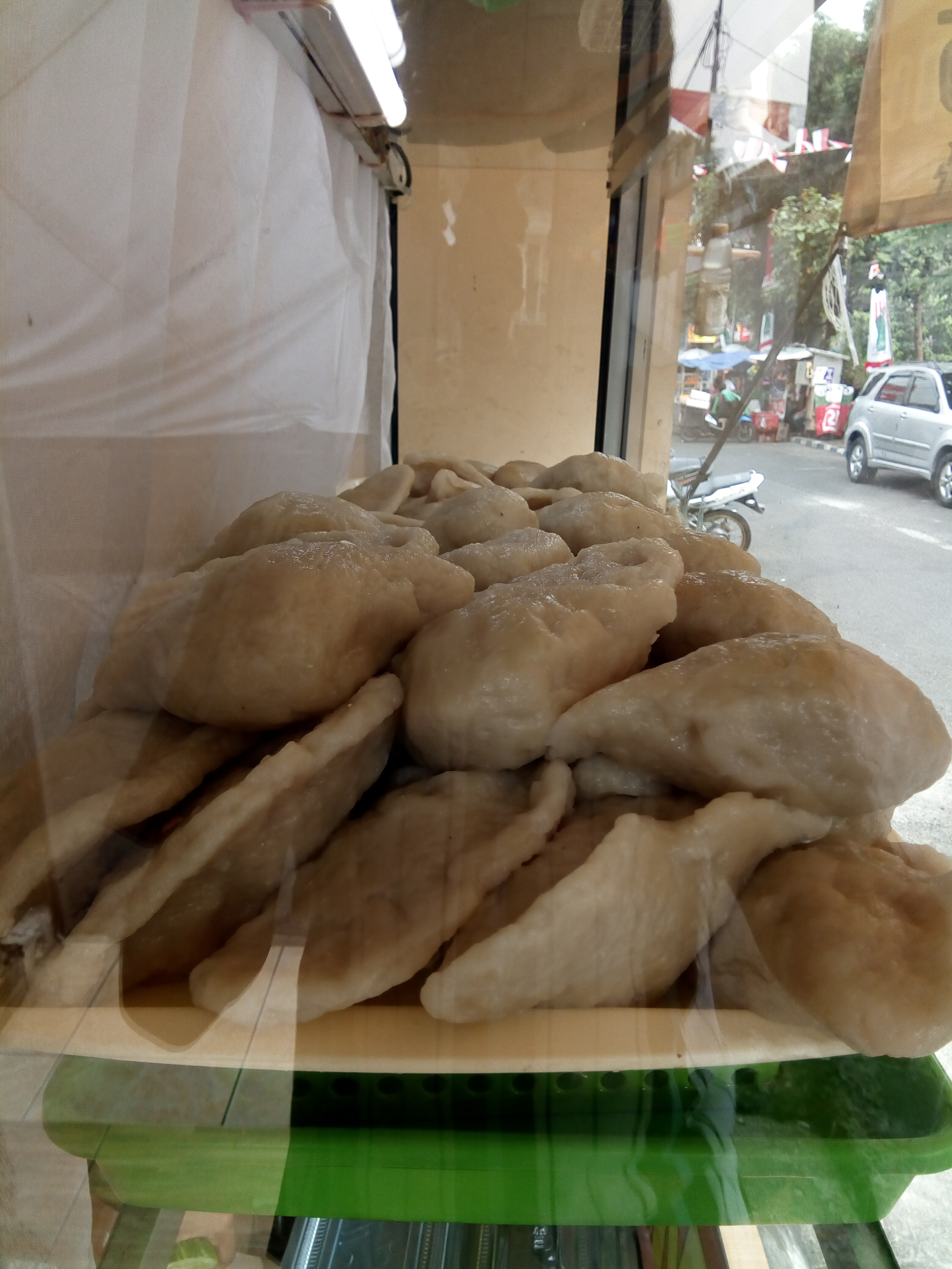 Pempek telor, cuisine of Palembang, in a shop in South Jakarta.